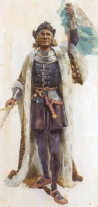 Description: Costume design for Alberto Franchetti's Cristoforo Colombo Artist: Adolf Hohenstein (1854-1928)